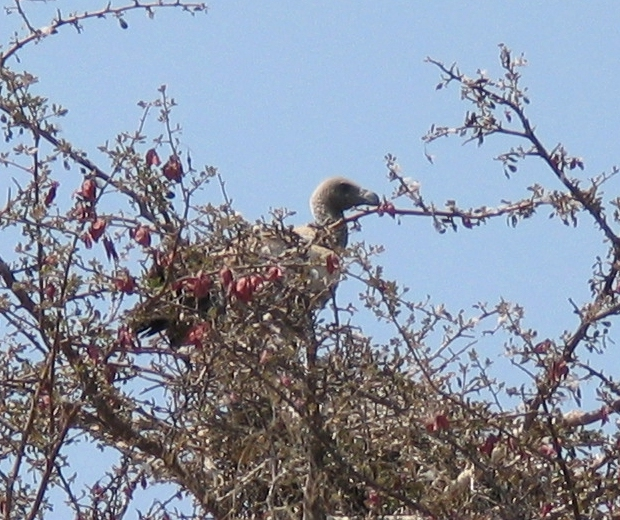 White backed vulture